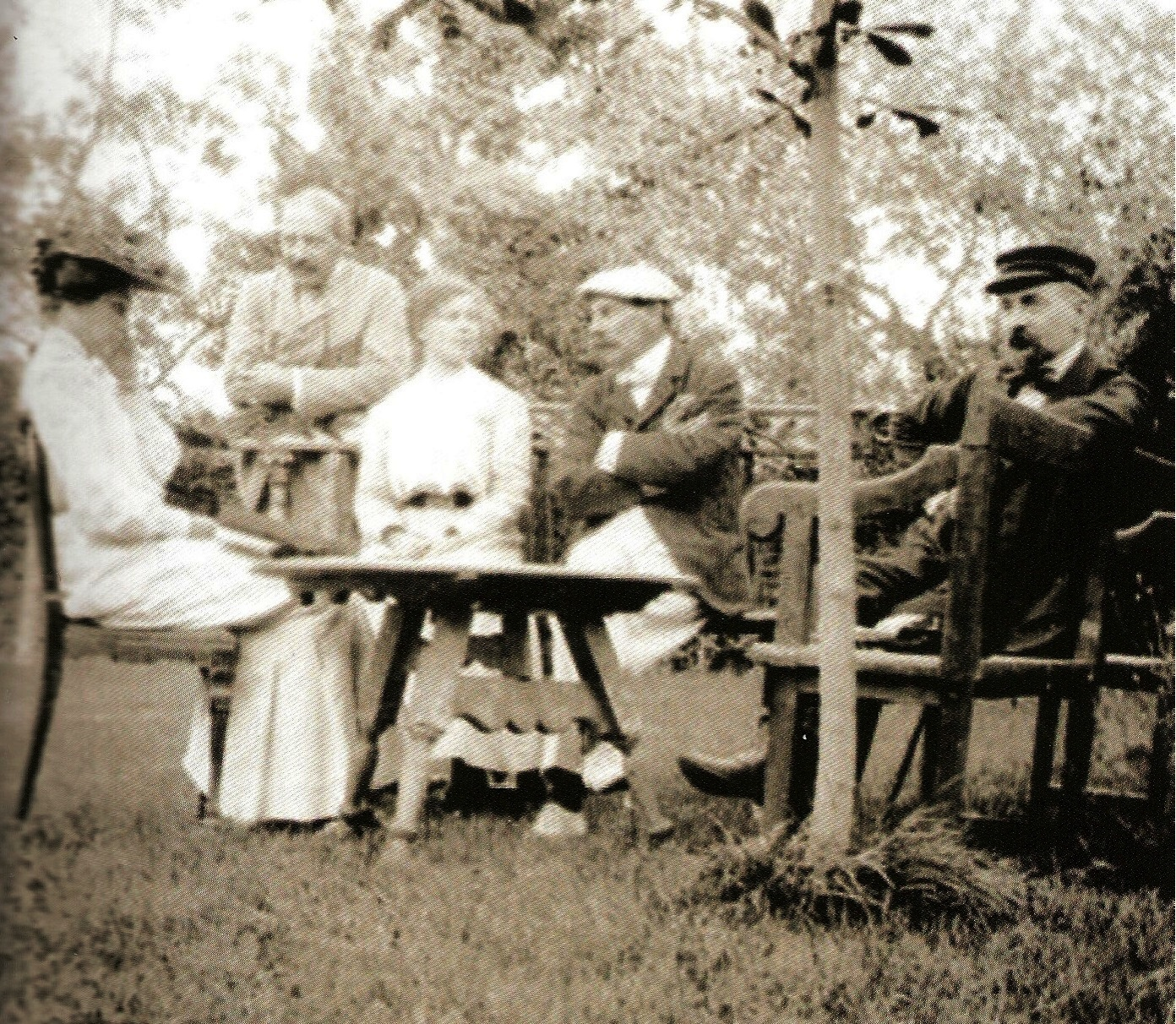 Vlnr. Henriette Hitchcock, onbekend, Corinne Melchers, George Hitchcock, Gari Melchers